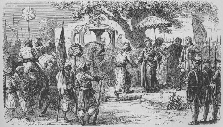 Joseph François Dupleix meeting with Muhyi ad-Din Muzaffar Jang Hidayat.